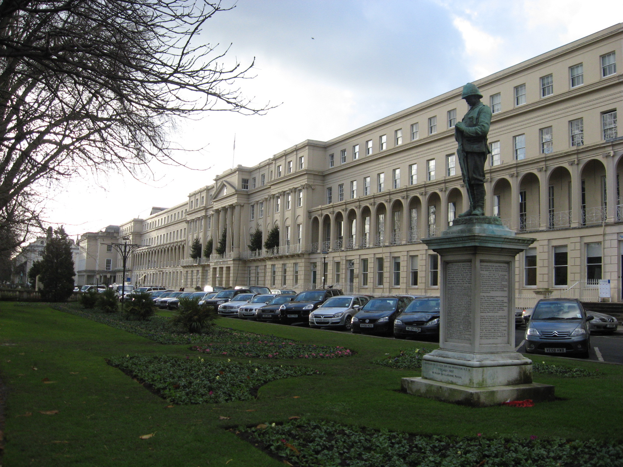 Regency headquarters of Cheltenham Borough Council, Gloucestershire, England